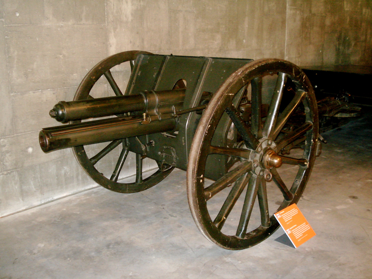 British QF 13 pounder gun at the Canadian War Museum in Ottawa. Note that in the field the gun's recuperator (above the barrel) would be wound with thick rope to protect it from shell splinters and shrapnel. The gun as shown is not wound with rope. Compare it with the Néry gun at the Imperial War Museum.